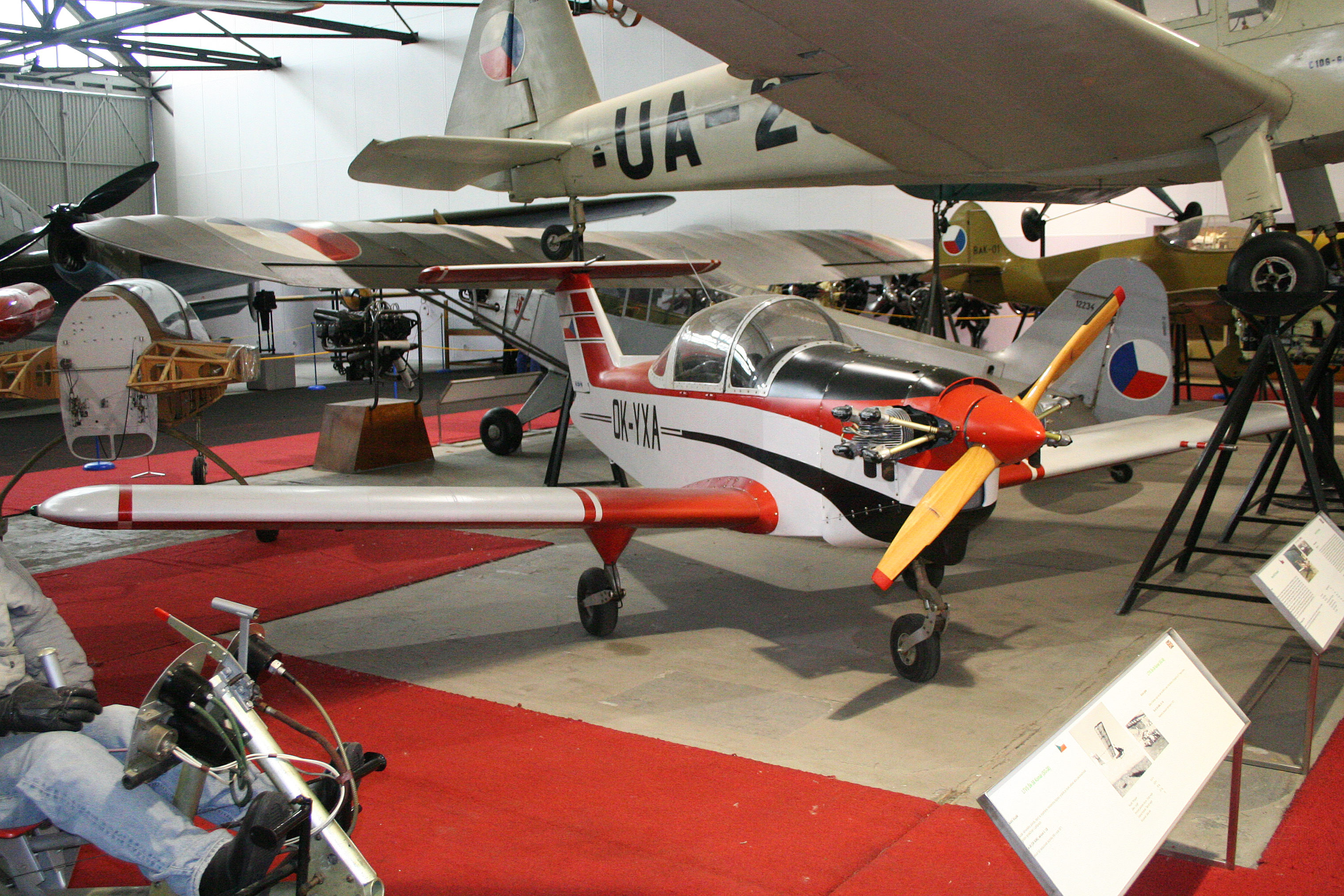 On display in the Post War hangar, Kbely Museum, Czech Republic. 07-10-2012